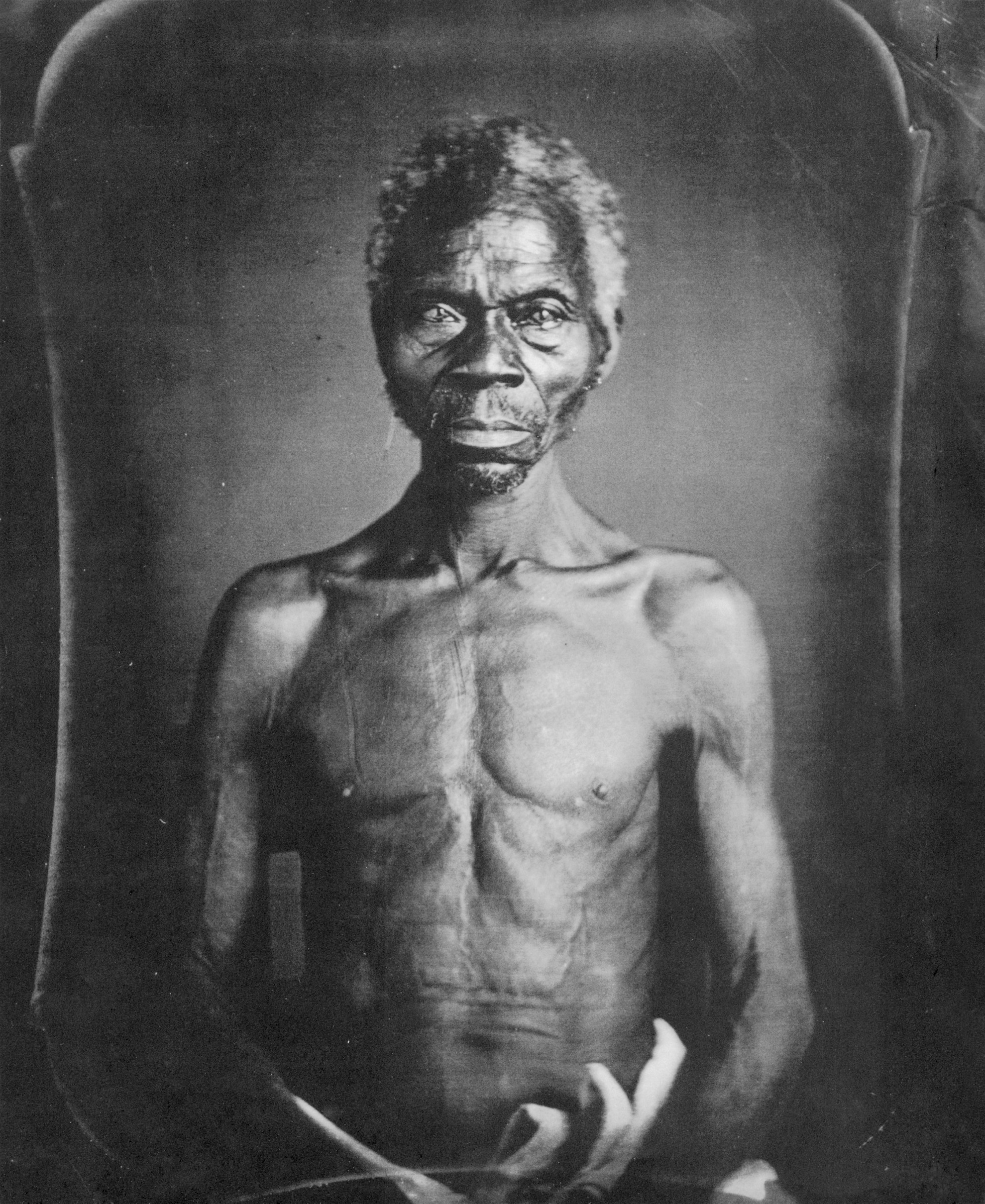 Renty an African slave, subject of Louis Agassiz